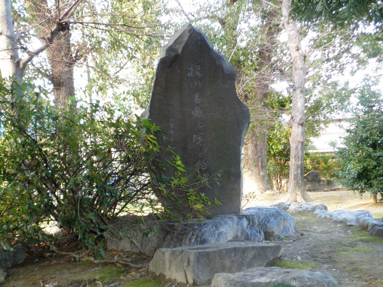 The site of Kajikawa Takamori's residence in Ichinomiya. Aichi.